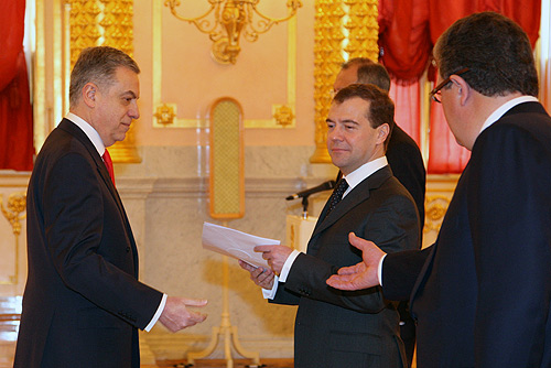 THE KREMLIN, MOSCOW. Presentation ceremony of foreign ambassadors’ letters of credentials. Ambassador of the Republic of Greece Michalis Spinelis presents his letter of credentials to the President.